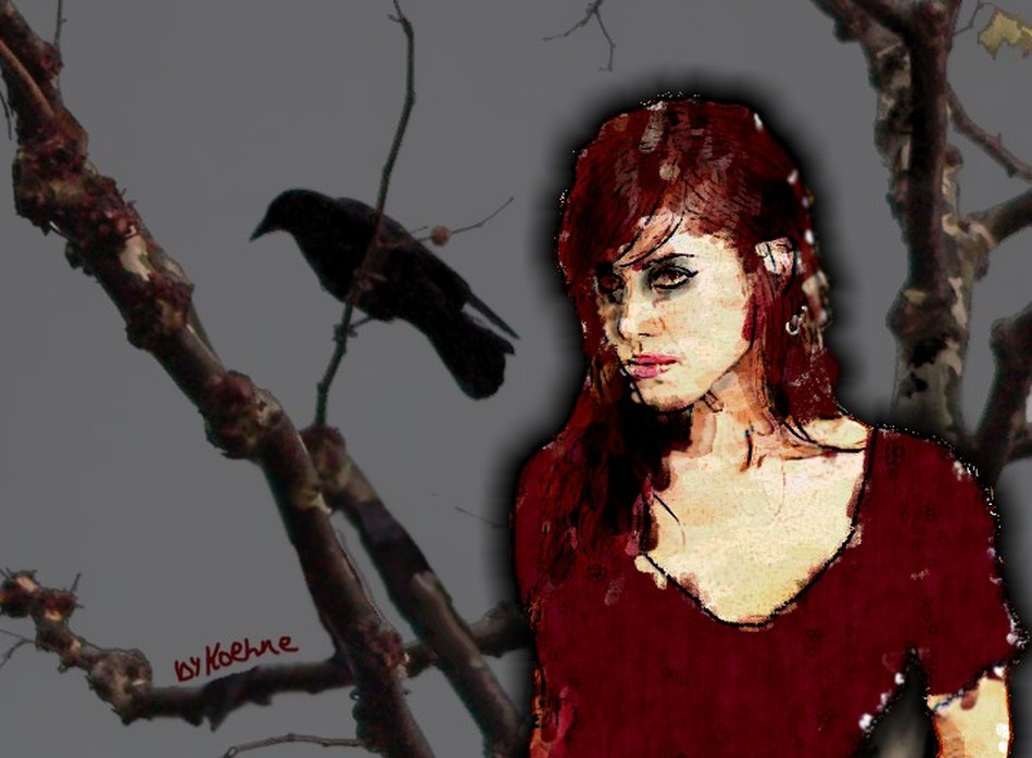 I don't do art for a living, neither for personal nor professional propaganda. I don't make any drawings for money. Thanks.